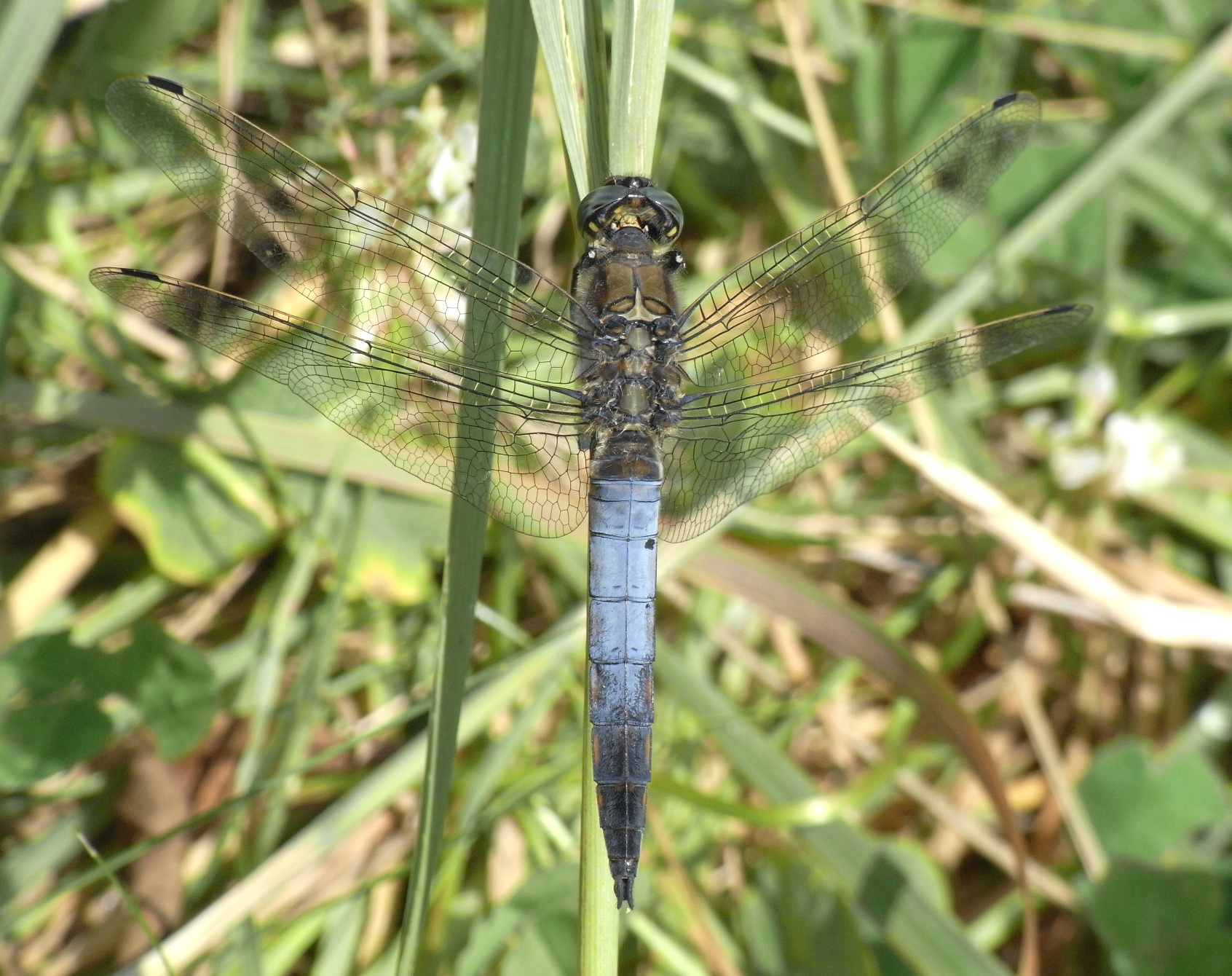 Male Black-tailed Skimmer (Orthetrum cancellatum).